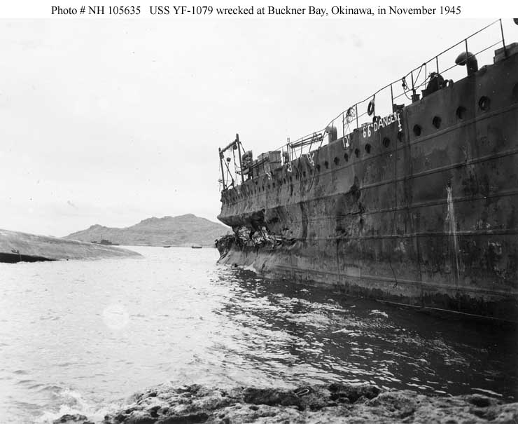 YF-1079 beached and damaged in Buckner Bay, Okinawa, after Typhoon Louise ravaged that port in October 1945. Photographed in November 1945. The image shows the after portion of her starboard side, which was damaged by a collision with another YF during the storm. Another service craft, possibly YF-757, lies sunken to the left. LST-39 was sunk in the West Loch ammunition explosion at Pearl Harbor, 21 May 1944. She was raised, converted to a spare parts issue barge, and redesignated YF-1079 in August 1944. YF-1079 had Diesel parts on board when wrecked. She was stricken from the Naval Register in February 1946 and destroyed in August 1946.